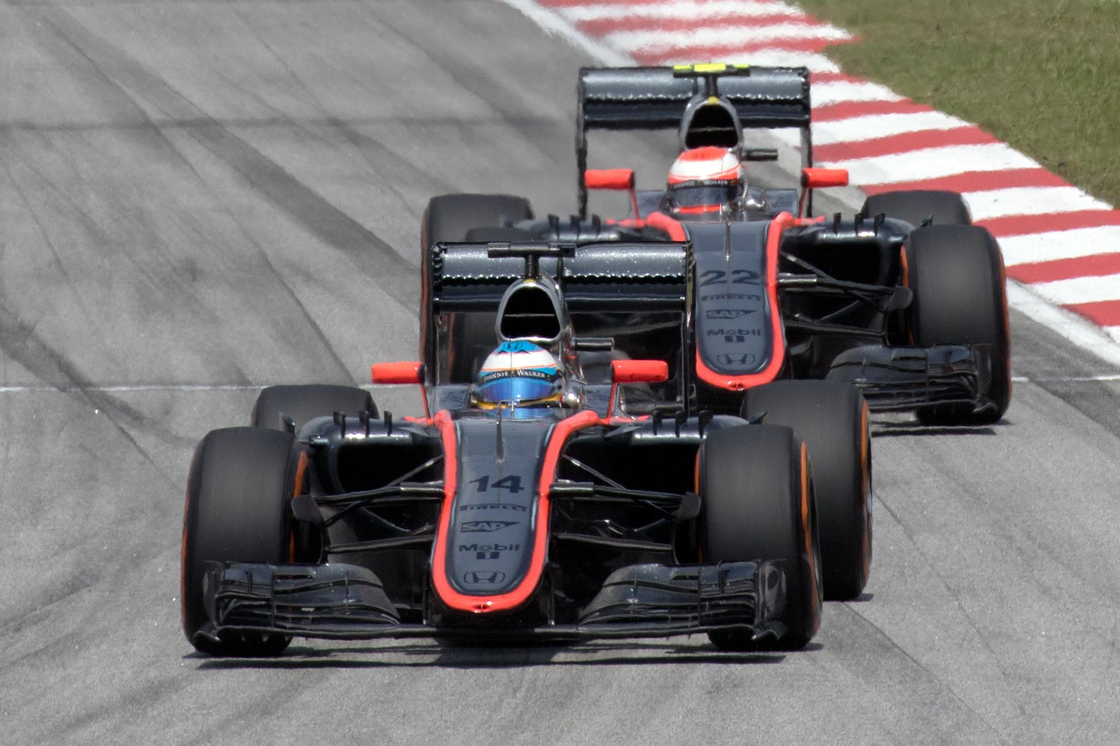 Formula One 2015 Rd.2 Malaysian GP: Fernando Alonso and Jenson Button (McLaren)